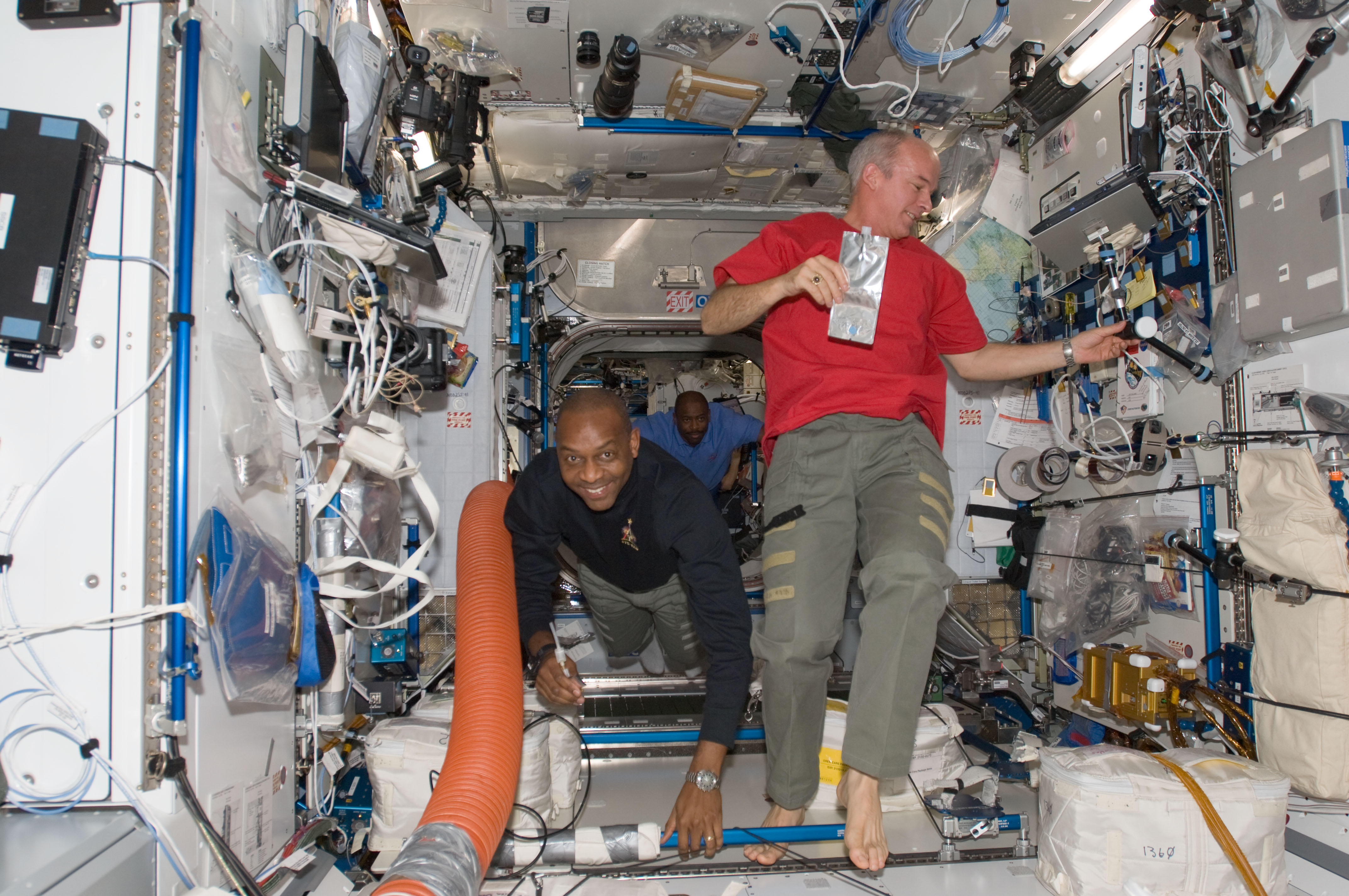 Astronauts Robert L. Satcher Jr. (left), STS-129 mission specialist; and Jeffrey Williams, Expedition 21 flight engineer, are pictured in the Harmony node of the International Space Station while Space Shuttle Atlantis remains docked with the station. Astronaut Leland Melvin, STS-129 mission specialist, is visible in the background.